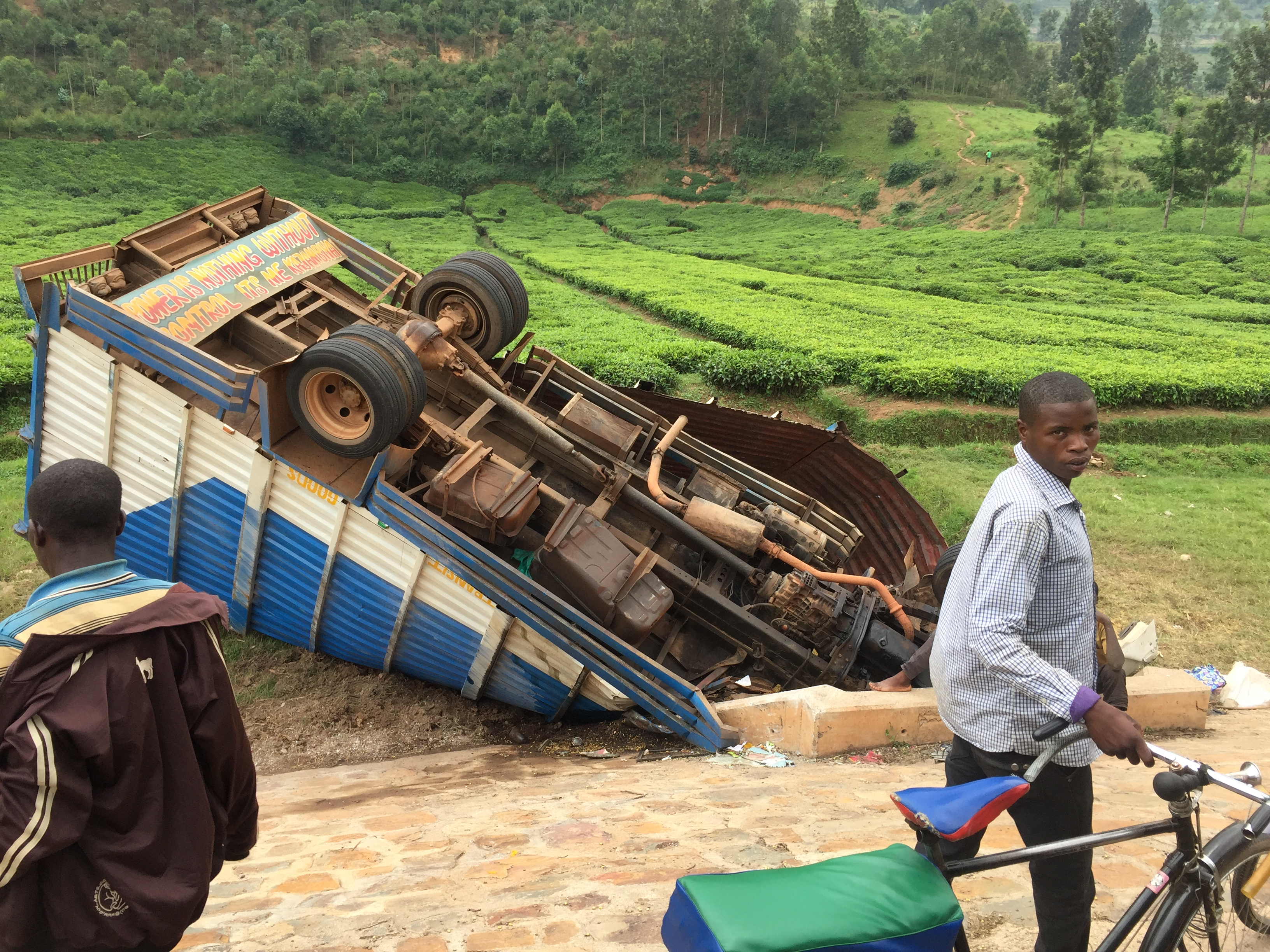 Coasting down the hills in Africa can be dangerous This is an image with the theme "Africa on the Move or Transport" from: Uganda